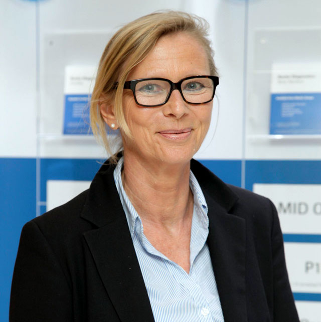 A photo of Dr Michaela Jaksch